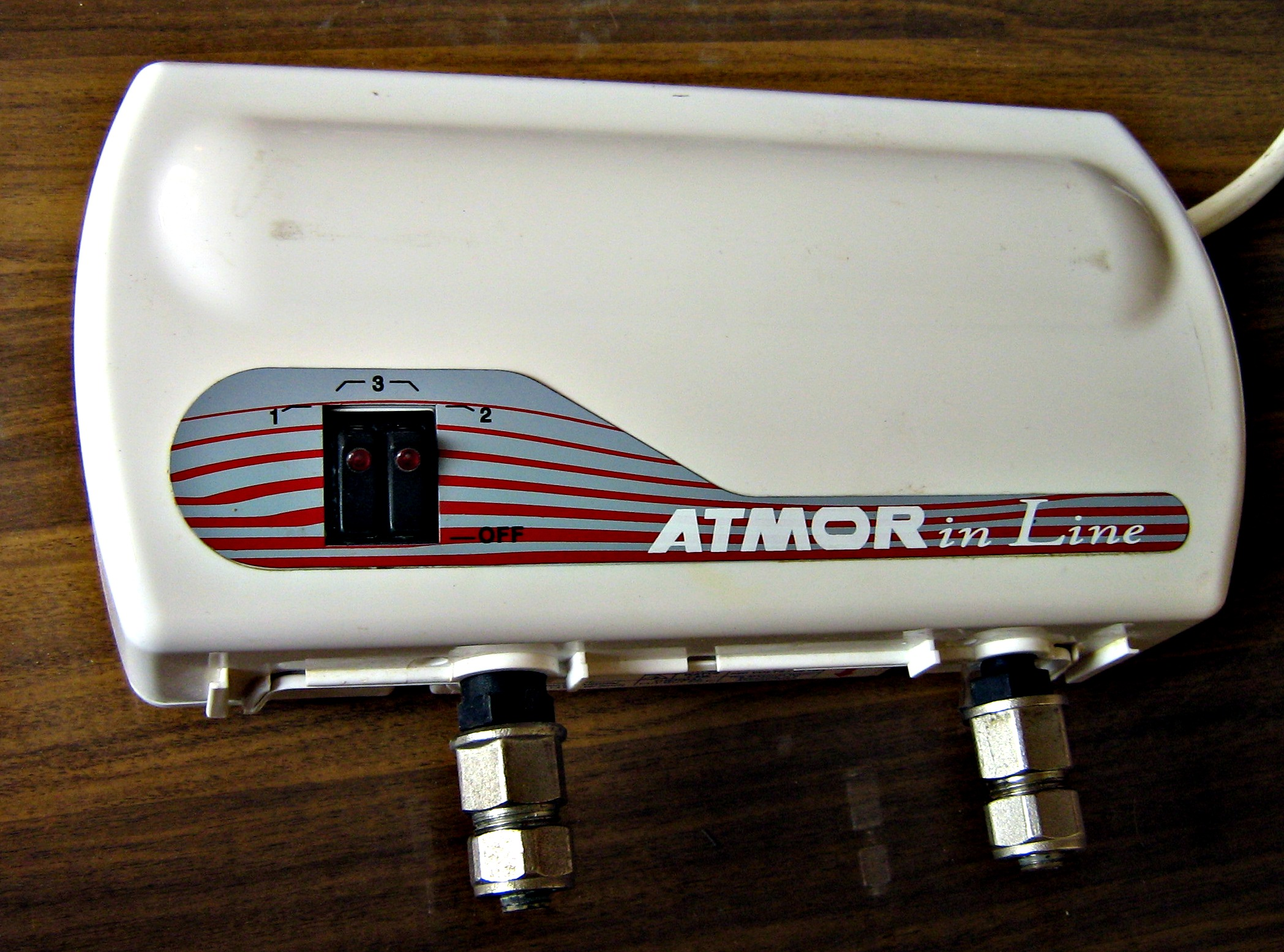 Water heater Atmor in line.